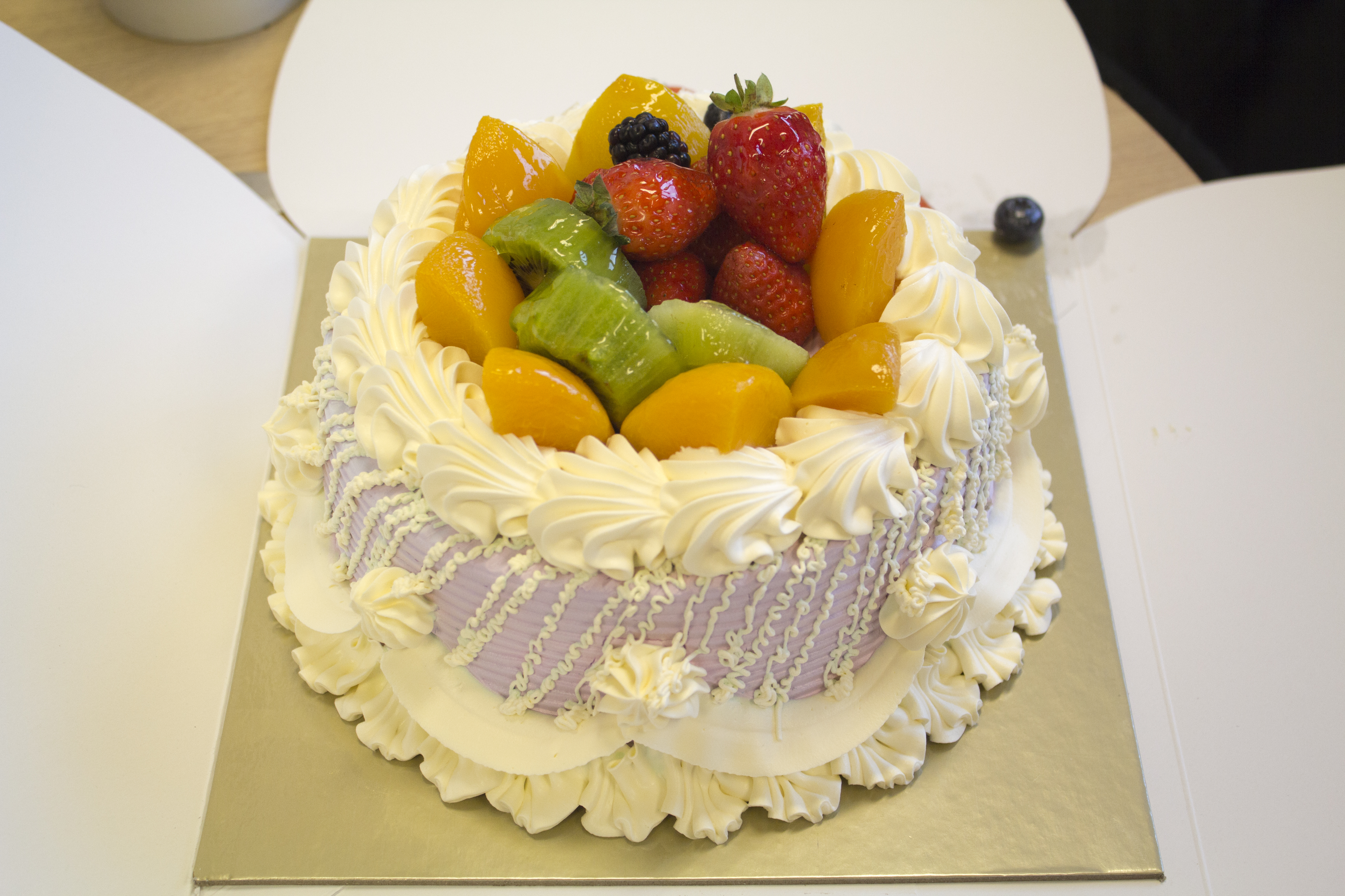 Standard off the shelf Chinese birthday cake.